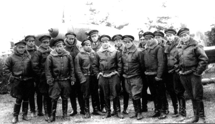 The Normandie-Niemen Regiment airman